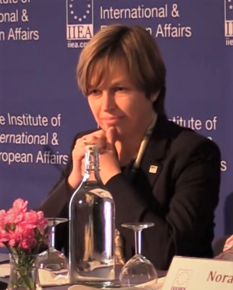 Catherine De Bolle - Catch me if you can: What are Europol’s Priorities for the Next Five Years? In her address to the IIEA, Catherine De Bolle presents her vision for the future of Europol and reflects on the links between operational and political priorities. On her appointment as Executive Director of Europol in May 2018, Ms De Bolle prioritised learning about the needs and expectations of the EU Member States and their role and relationship with the organisation in the future. Ms De Bolle addresses the thorough consultation that took place with the Heads of Law Enforcement Agencies of the EU, which set the base for the development of the new ‘Europol Strategy 2020+’. Filmed on the 24th of April 2019